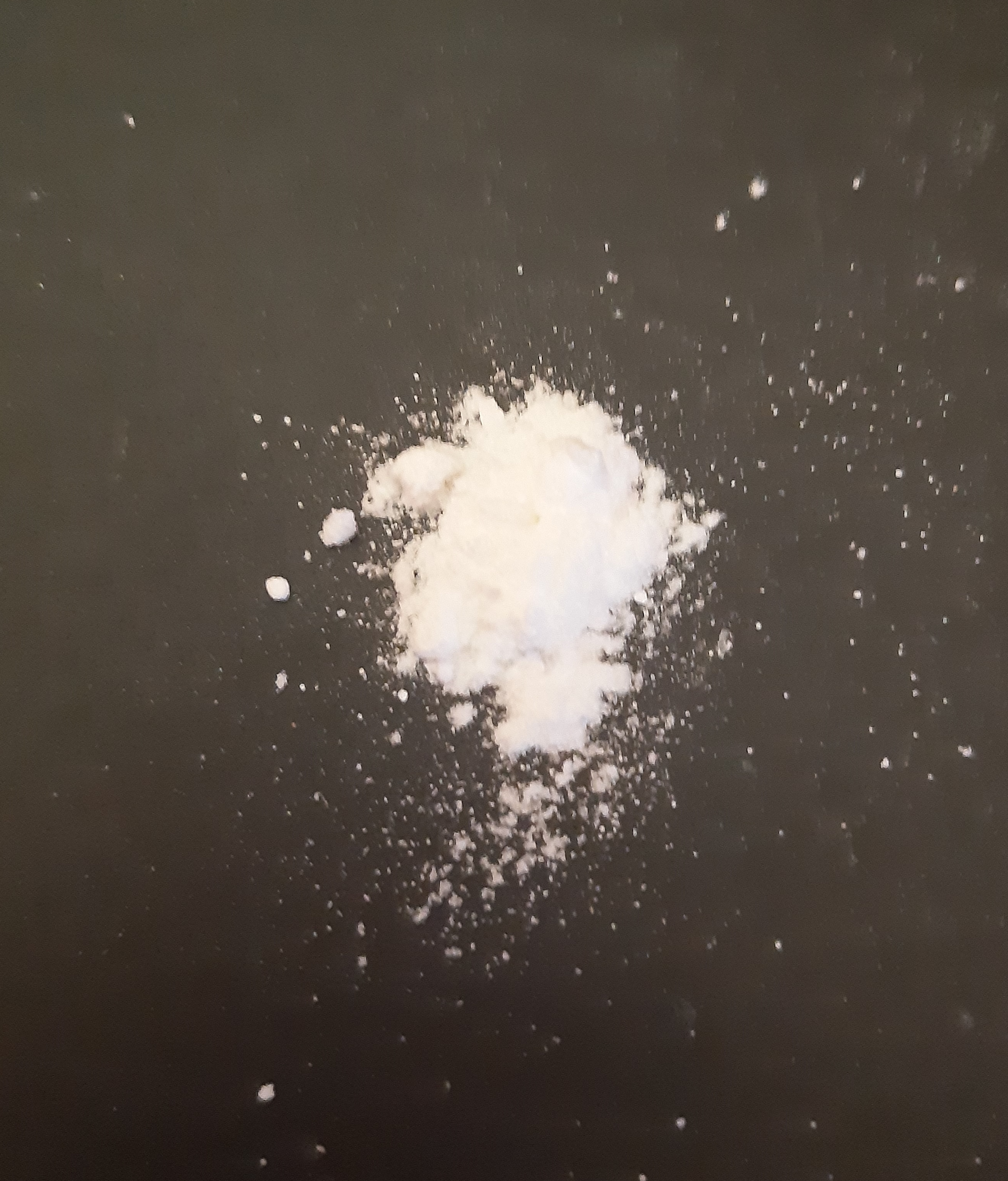 Pure etizolam powder.